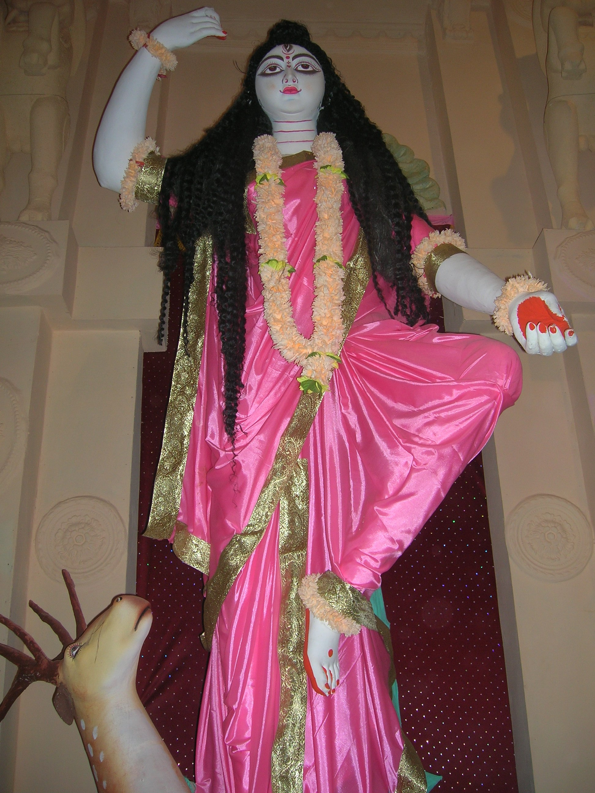 Uma's penance, Durga Puja pandal at Srisangha, Behala, 2010